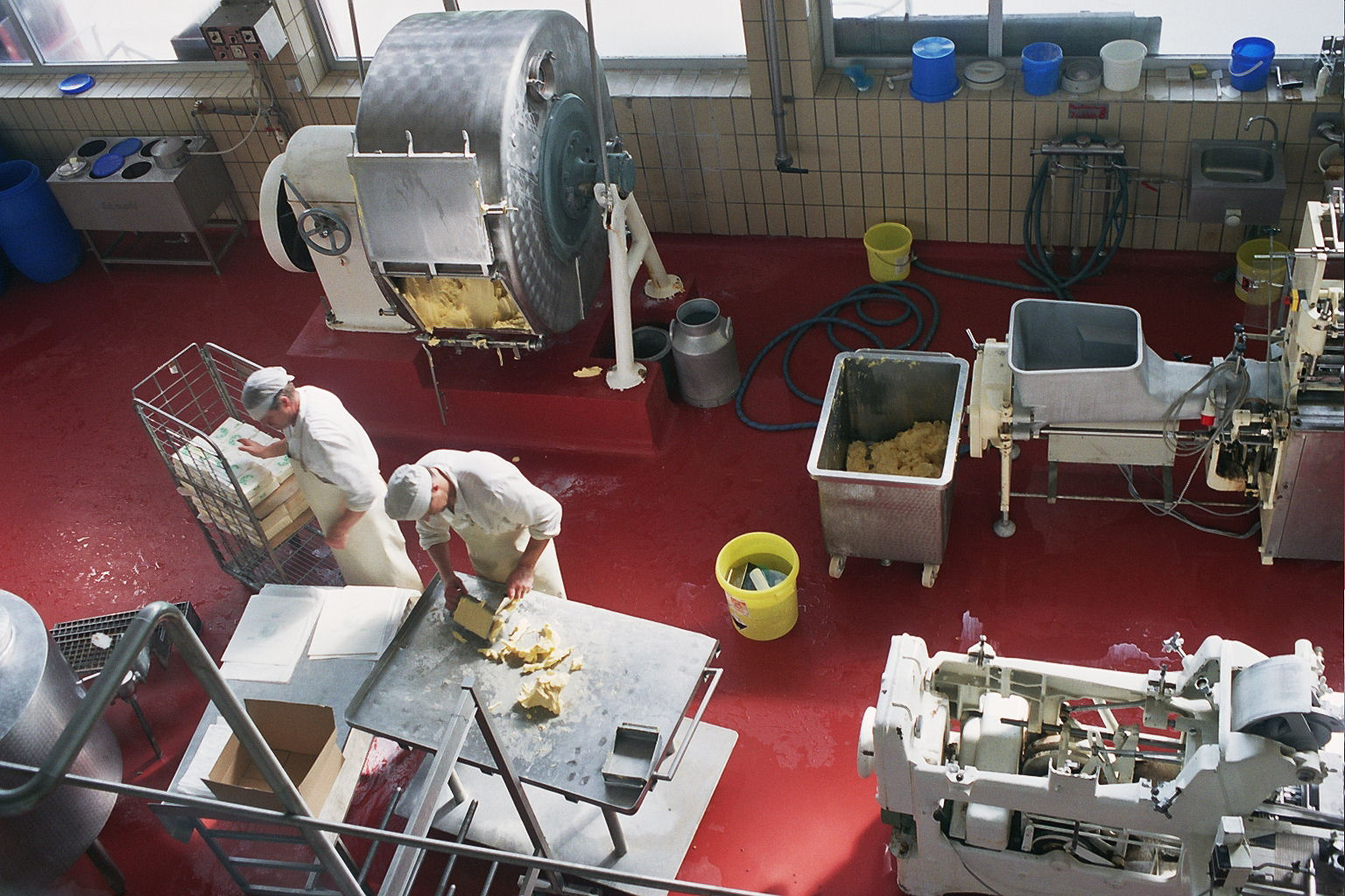 Butter fabrication in Fügen, Austria